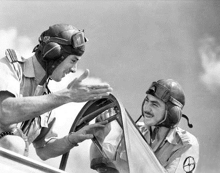 6 June 1941. Lydda, British Mandate of Palestine. Squadron Leader Peter Jeffrey of No. 3 Squadron who was recently awarded the D.F.C. goes over the points of the new American "Tomahawk" with P/O Peter Turnbull one of the original and leading RAAF pilots in the Middle East before he takes the new machine up for a test flight.